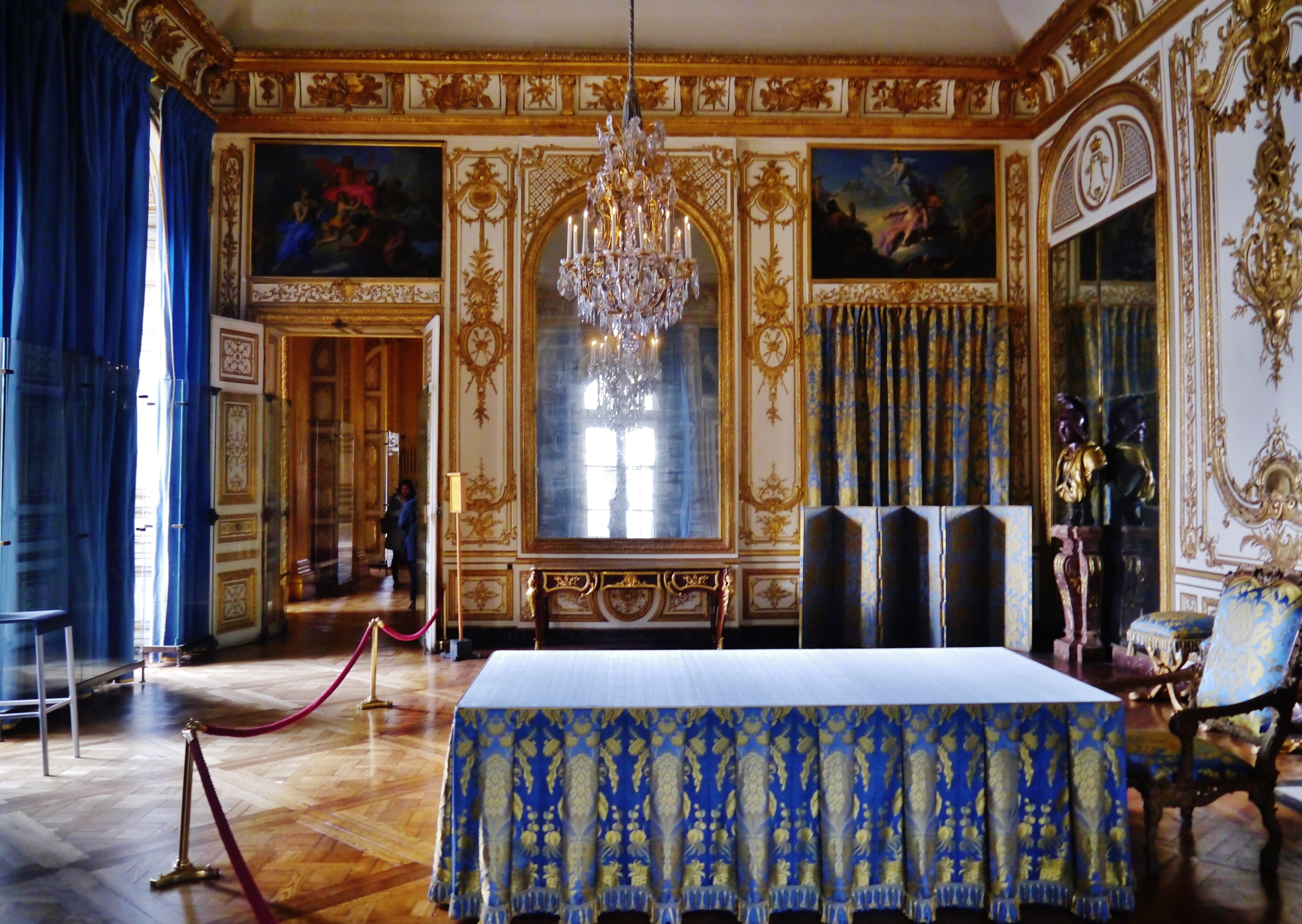 Council Room at Versailles Palace, Versailles, Département of Yvelines, Region of Île-de-France, France